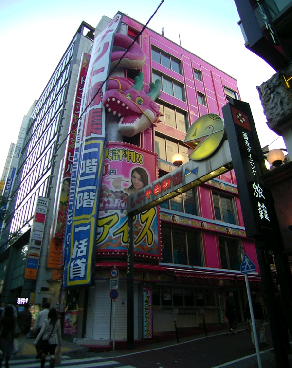 dragon ice company,Tokyo japan